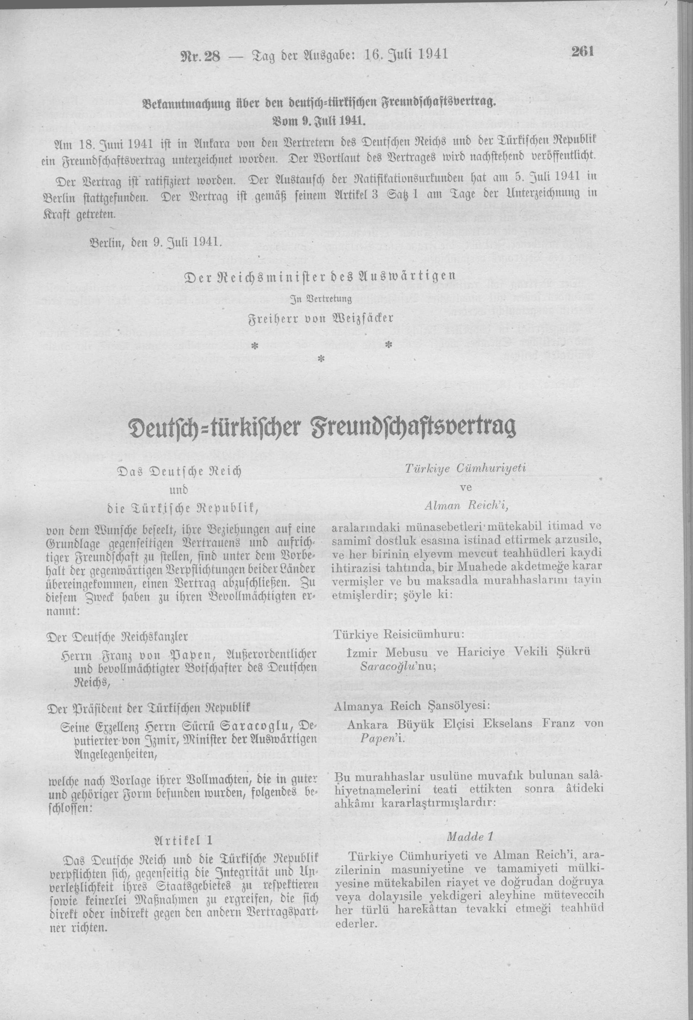 Scan from the Imperial Law Gazette of Germany, 1941, part 2